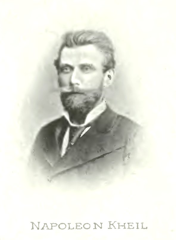 Portrait of Napoleon Manuel Kheil (1849-1923), Czech business school teacher and amateur entomologist.